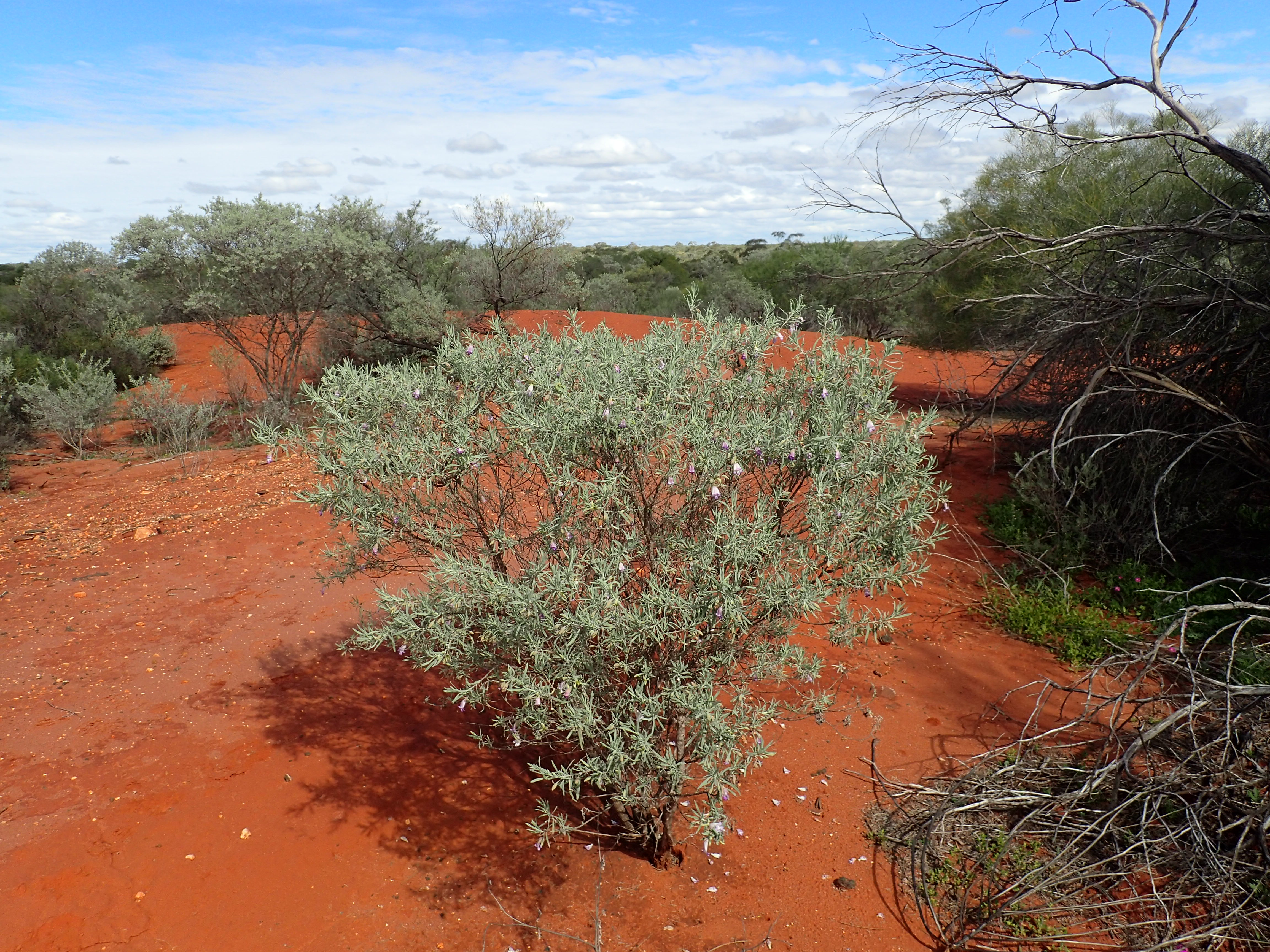 Eremophila maitlandii growing 9.5 km north of the Billabong Roadhouse